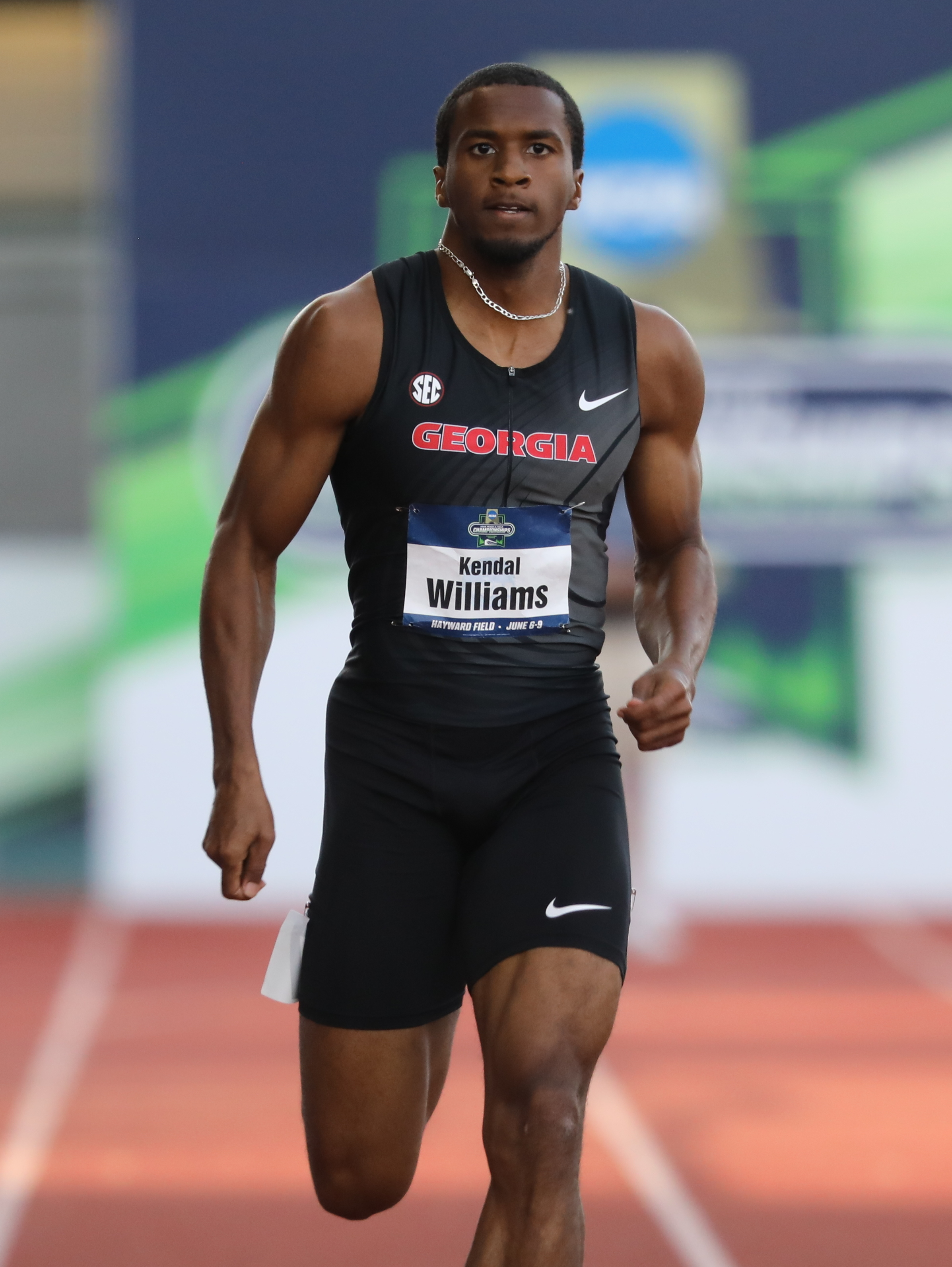 2018 NCAA Division I Outdoor Track and Field Championships